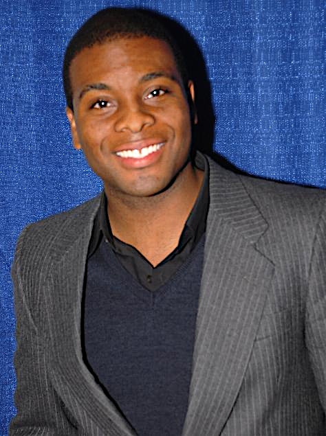 November 11, 2007 - Women's Image Network Awards